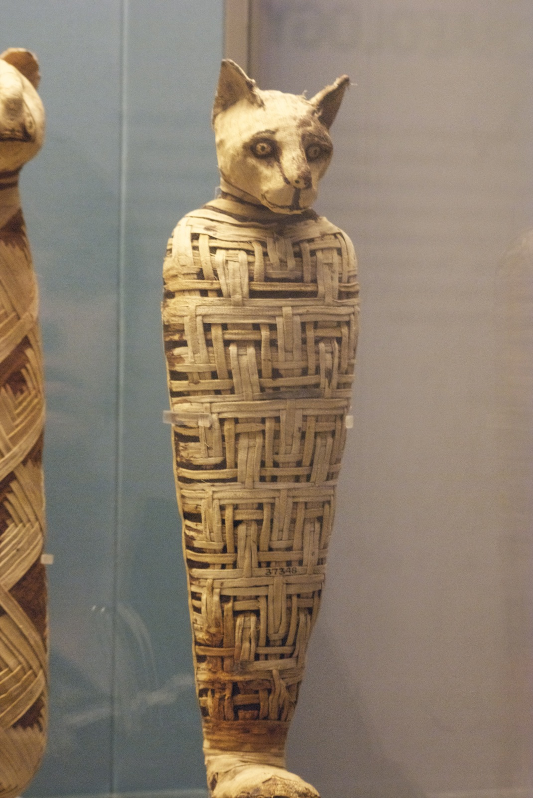 Mummified cat